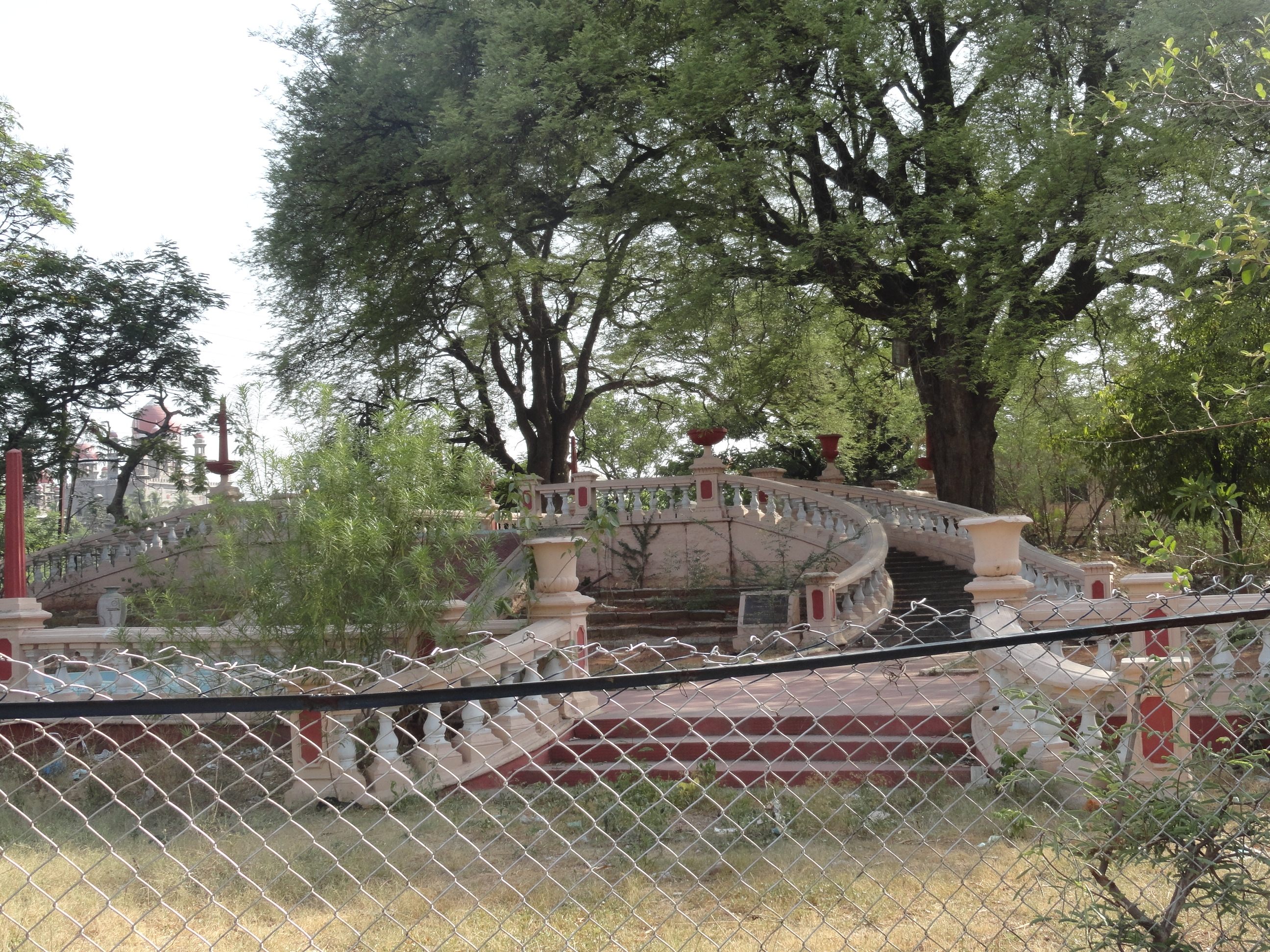 near OGH, a Tree that saved people during 1908 floods Hyderabad.